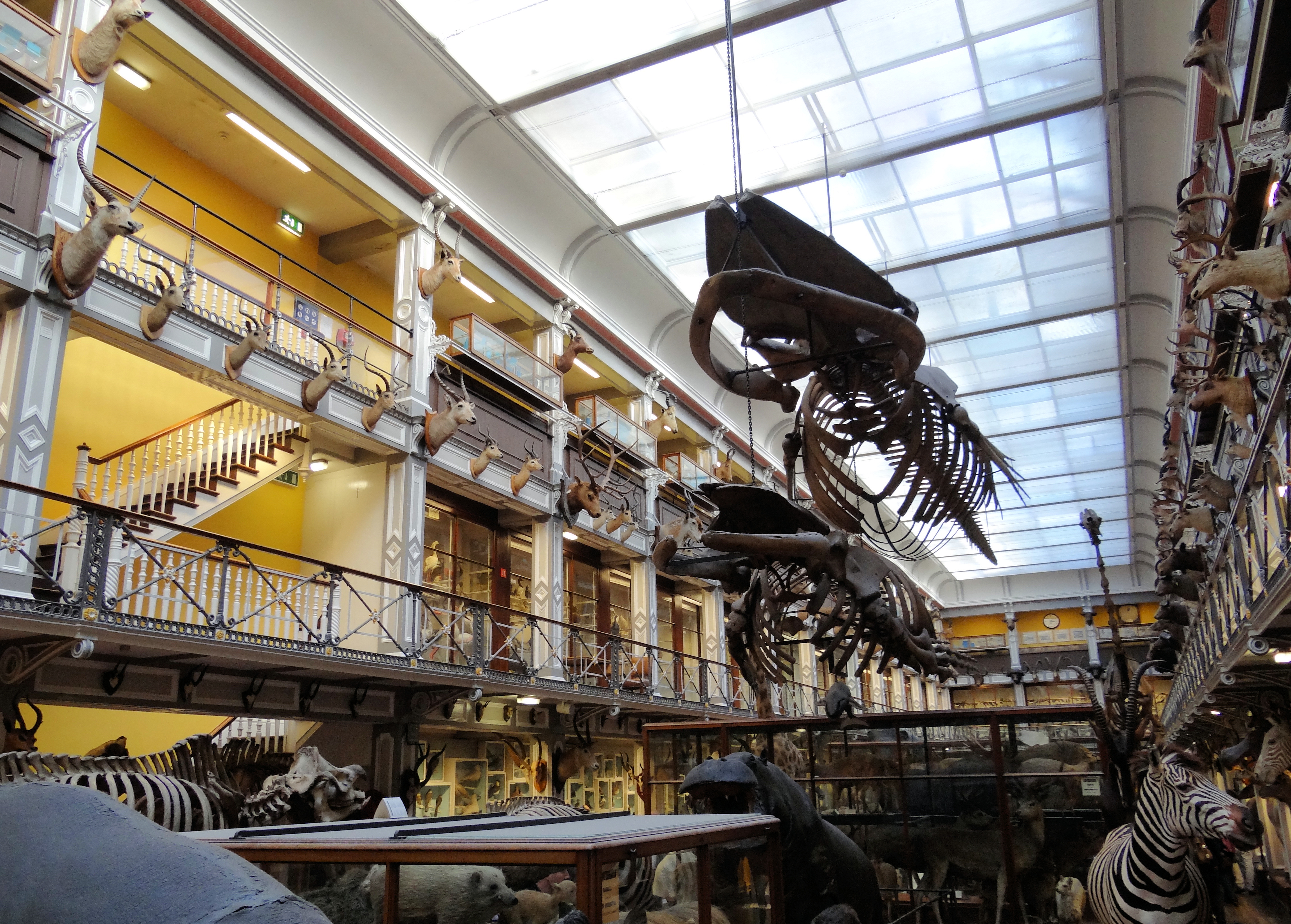 The exhibition on the first floor of the Natural History Museum in Dublin, Ireland.